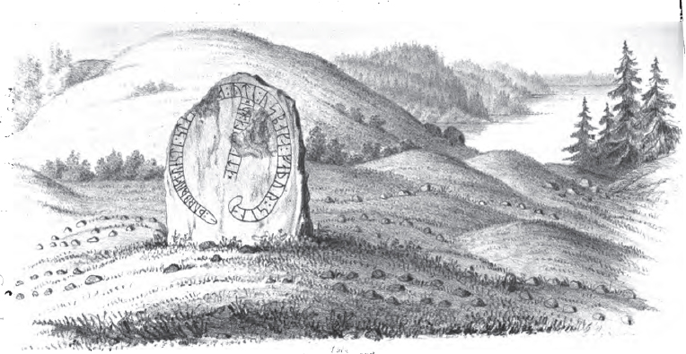 The runestone Sö 202. The inscription reads : þurbyrna : resti : s(t)(a)i[n] --(n)a : yti : usbaka : faþur : sen ai ×× ati (k)(u)hui ×. In English "Þorbjôrn raised this stone in memory of(?) Óspaki, his father. He owned Kolhaugr(?)"